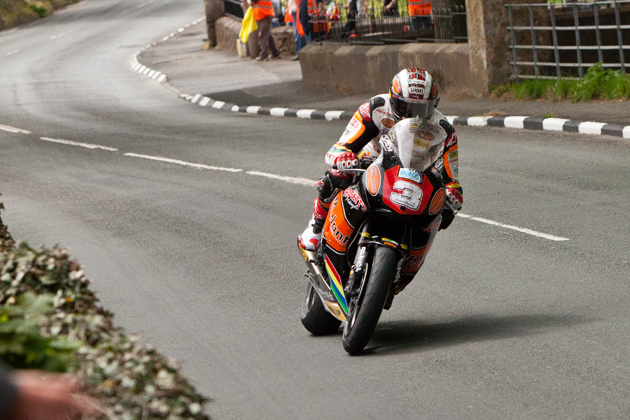 John McGuinness at Lezayre during the Superstock Isle of Man TT 2013 - Superstock